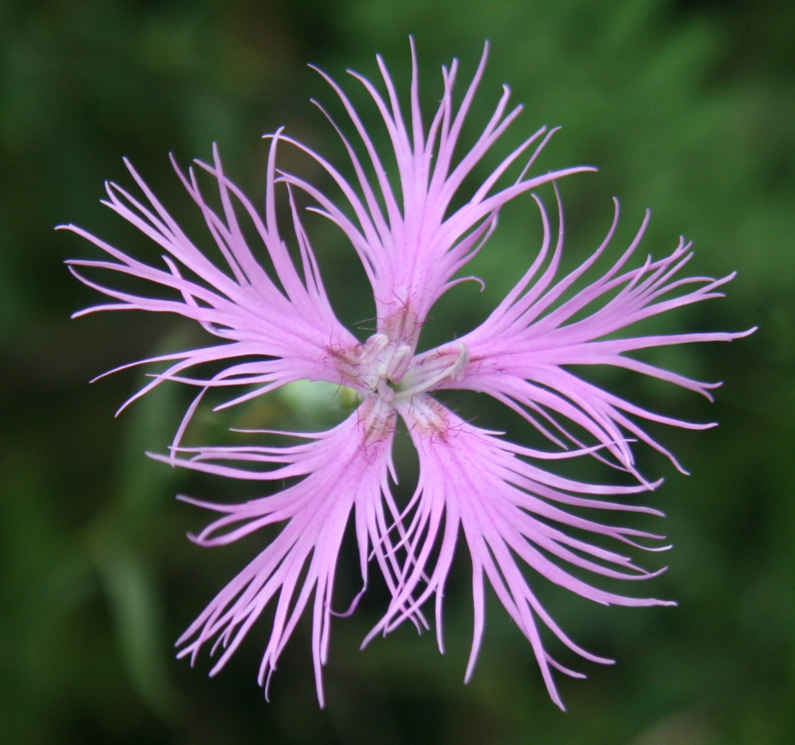 Dianthus superbus var. longicalycinus, in Mount Ibuki, Maibara, Shiga prefecture, Japan.